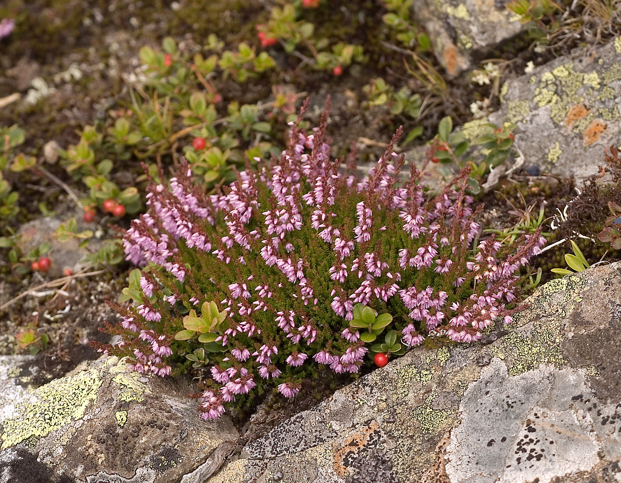 Heather; Location: Großer Bösenstein, near Hohentauern, Styria, Austria